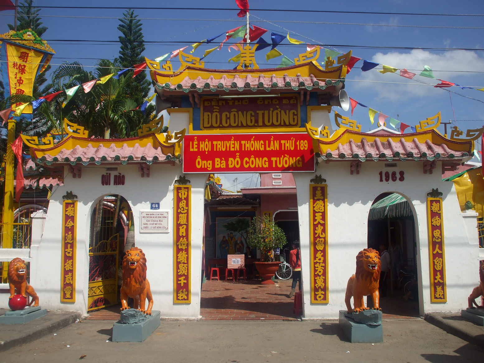 Temple for Mr. & Mrs. Đỗ Công Tường at the market, Cao Lãnh City, Đồng Tháp Province